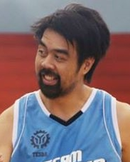 PBA Legend Marlou Aquino playing for Team Trabaho in an exhibition game dedicated to out-of-school youth by TESDA.